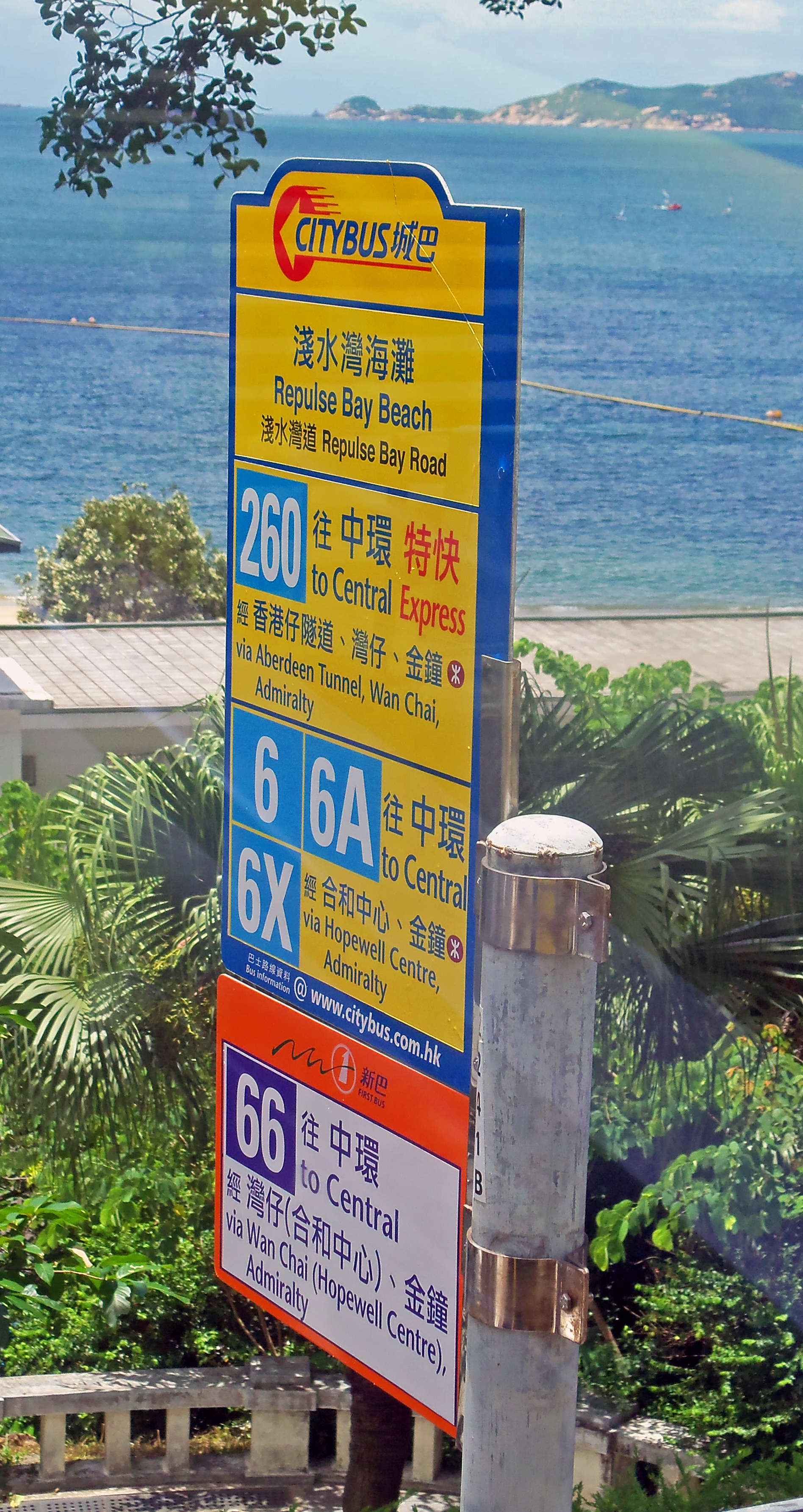 Sign for bus routes serving Repulse Bay along Repulse Bay Road.